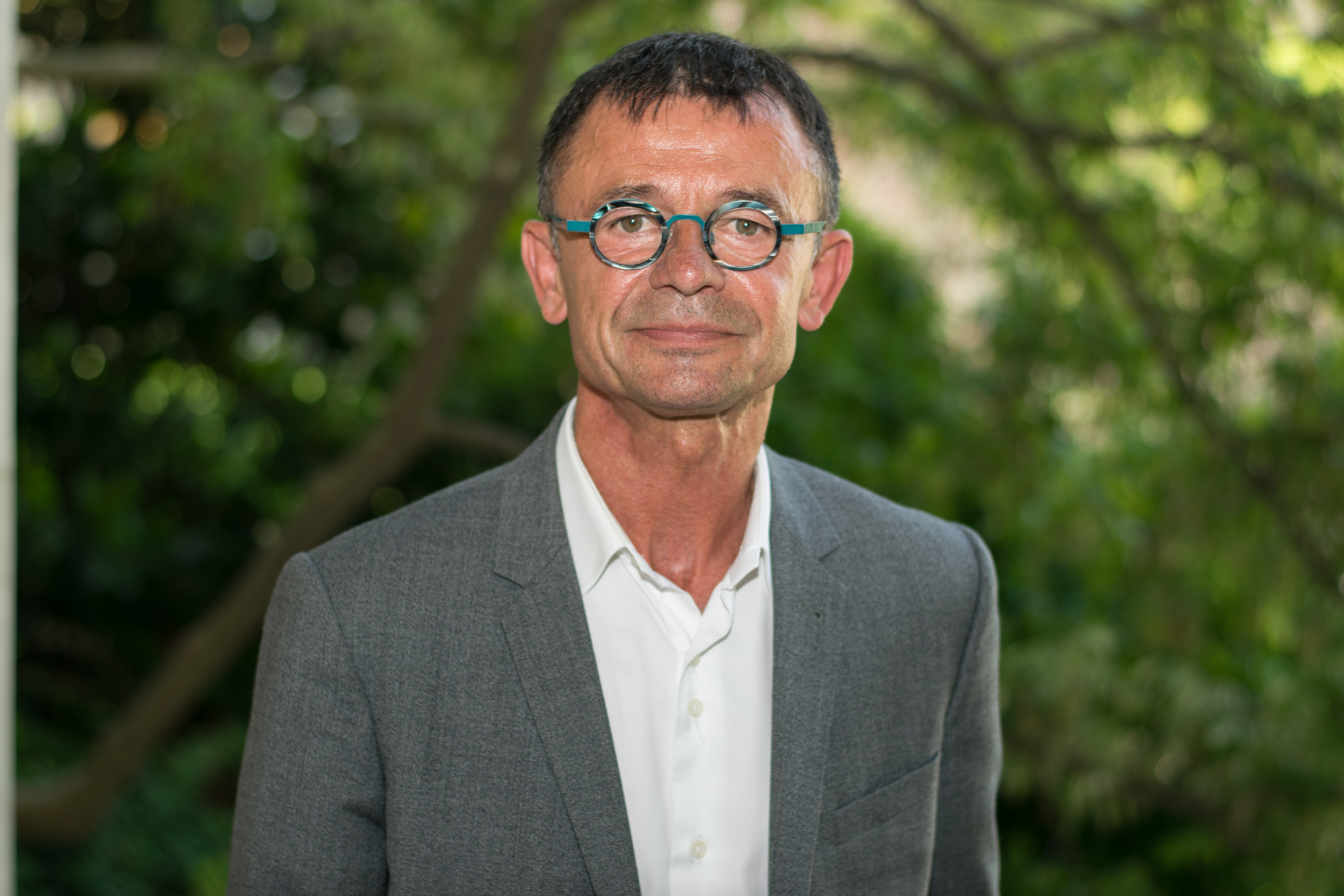 Joël Aviragnet in the garden of the Quatres Colonnes in the Palais Bourbon (Paris, France).